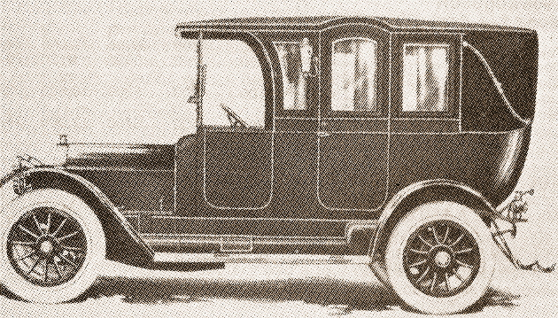 1919 Knox Model 45